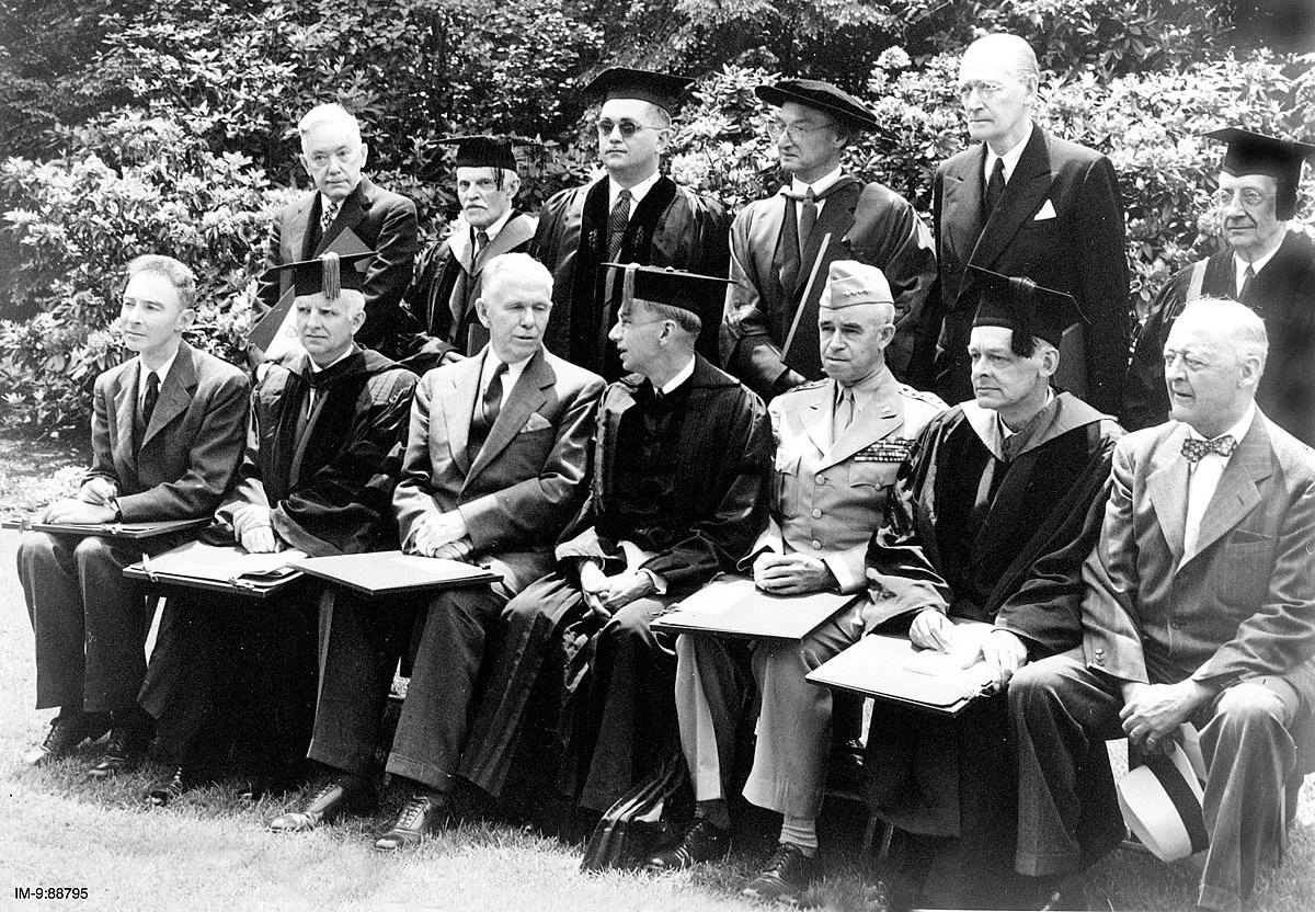 Award of honorary degrees at Harvard to J Robert Oppenheimer (left), George C. Marshall (third from left), Omar N. Bradley (fifth from left), and T. S. Eliot (second from right). The President of Harvard University, James B. Conant, sits between Marshall and Bradley.